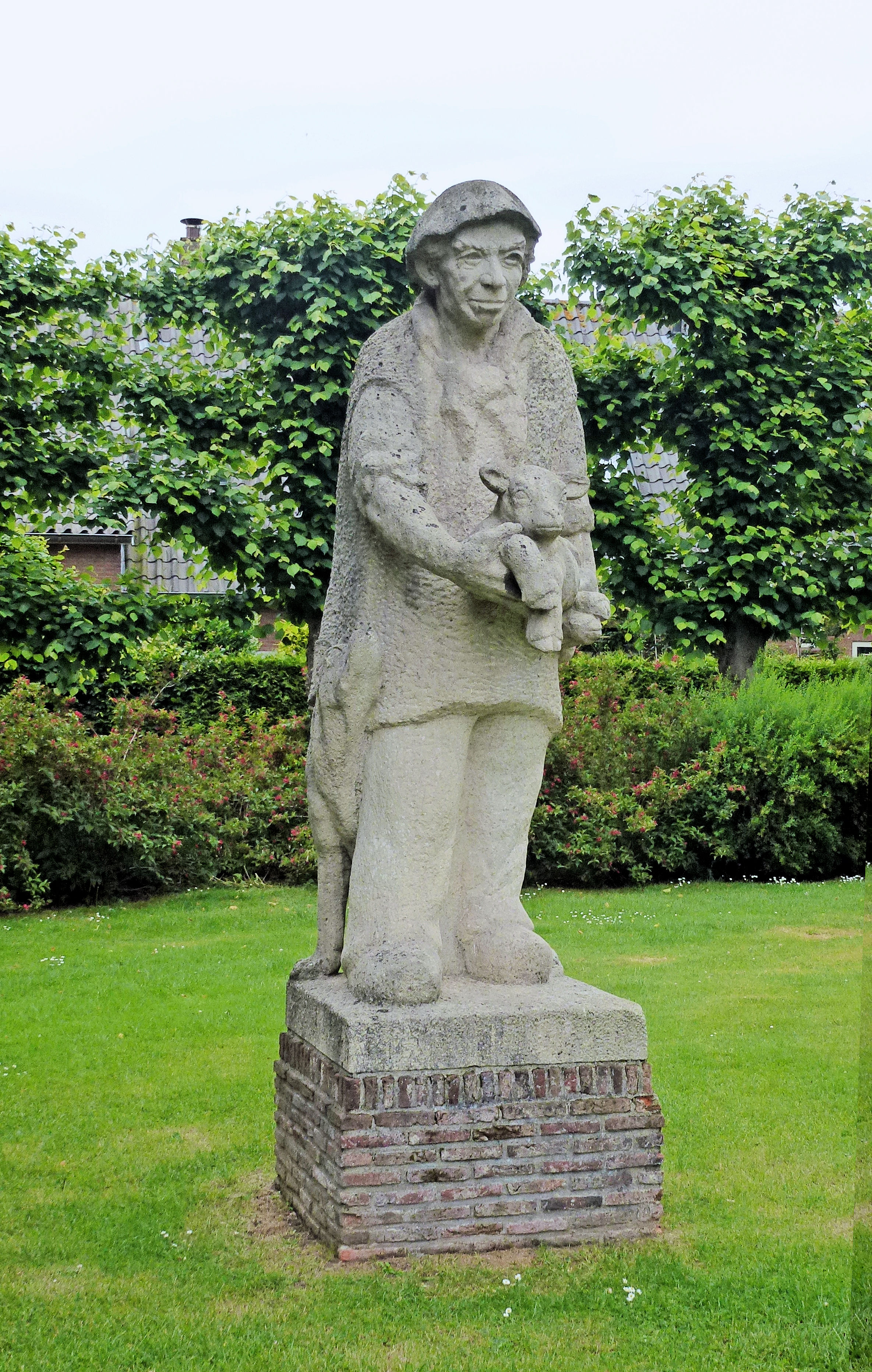 Limestone sculpture of a shepherd